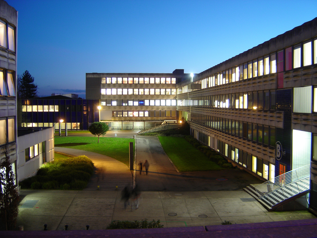 View of building B, D and amphitheater Chateaubriand University of Rennes 2. The buildings were built by Louis Arretche for the creation of campus Villeajean.